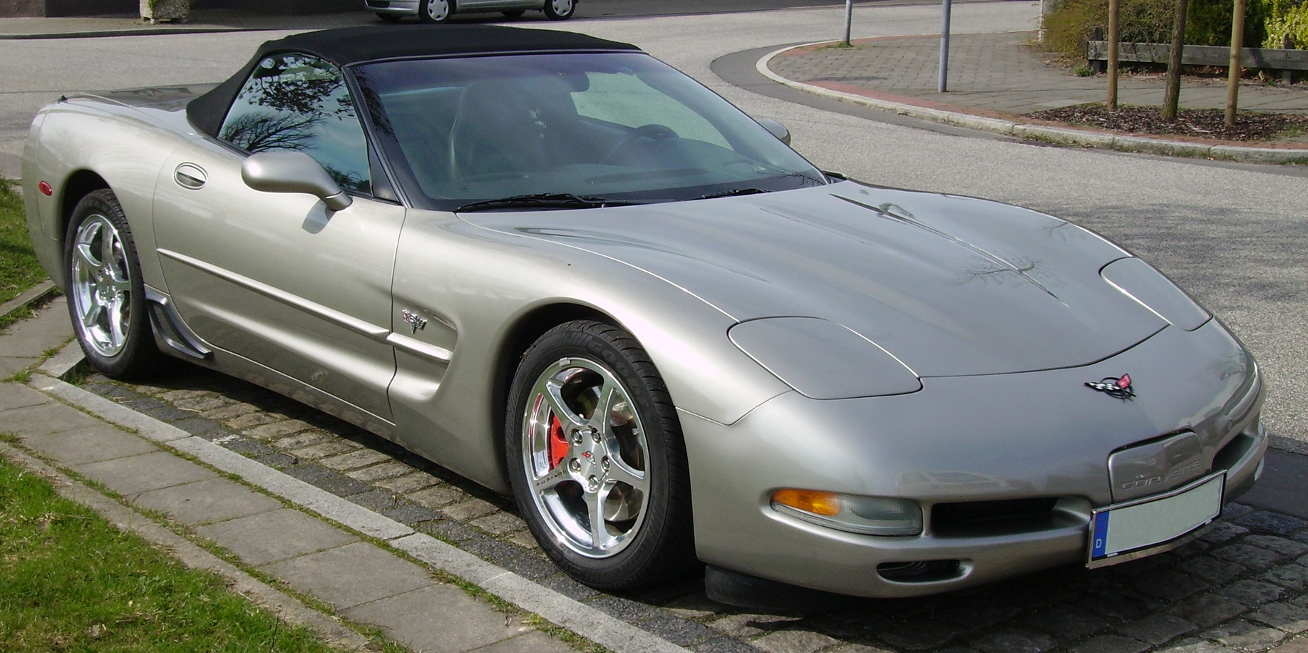 A Corvette C5 convertible